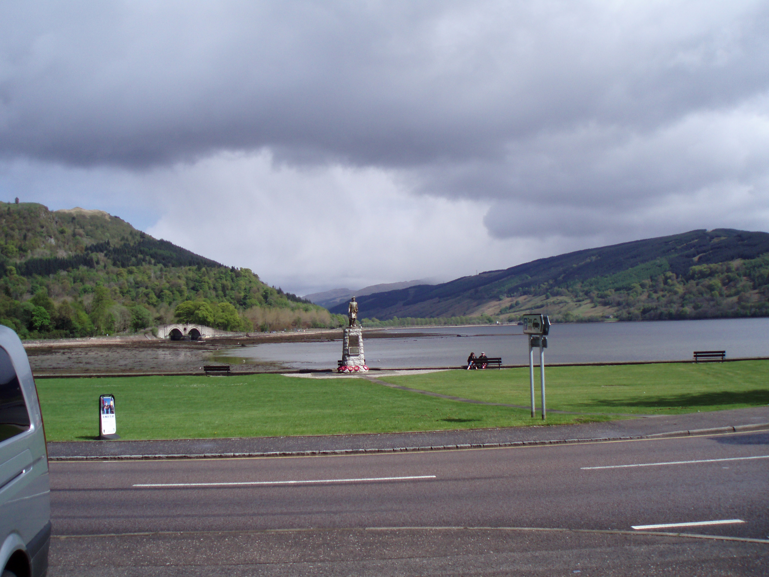 Gleann Síra a deas, á Inbhir Aora